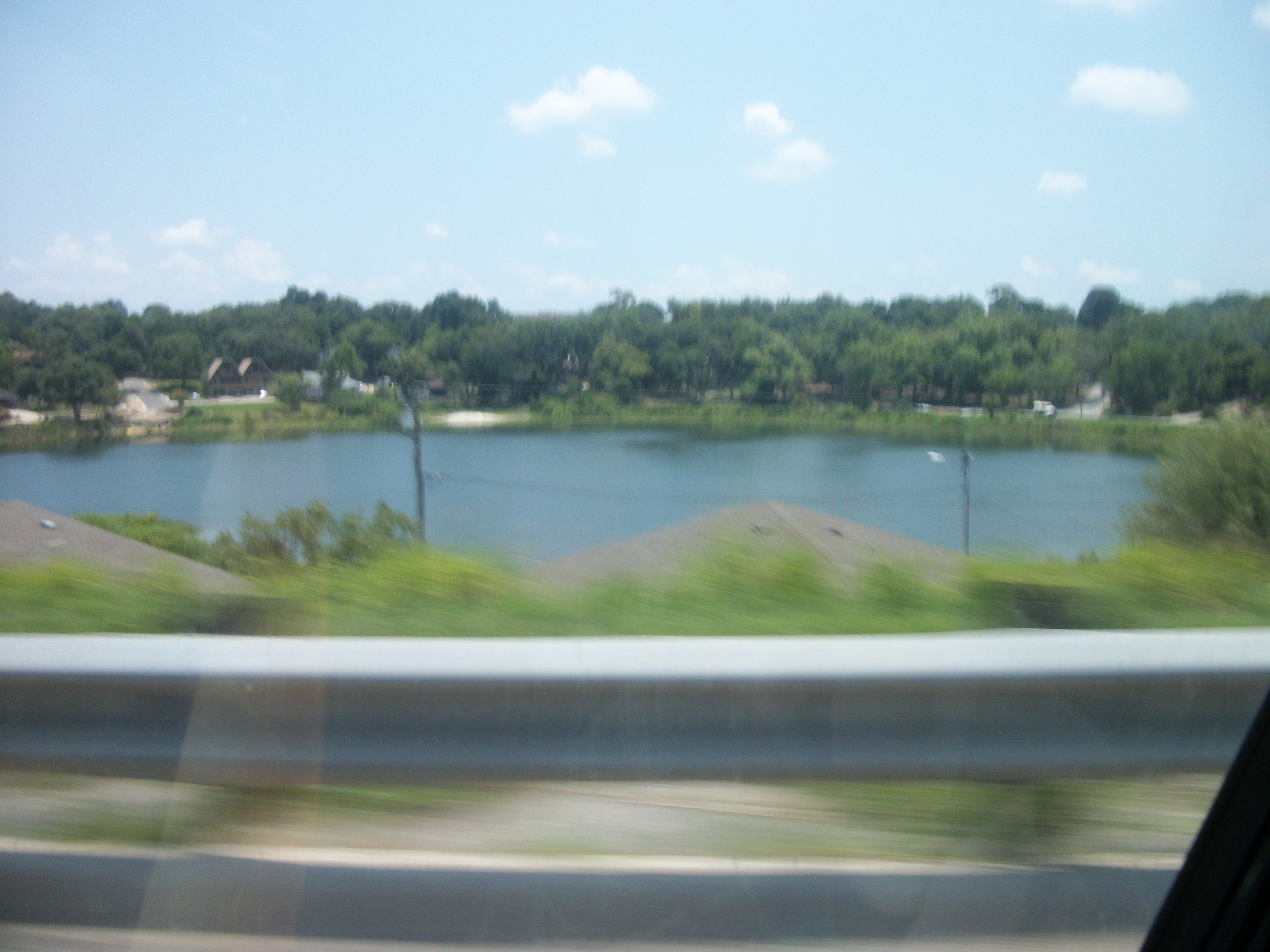 View of Lake Sunnyside in Clermont, Florida, as seen from Florida State Road 50.